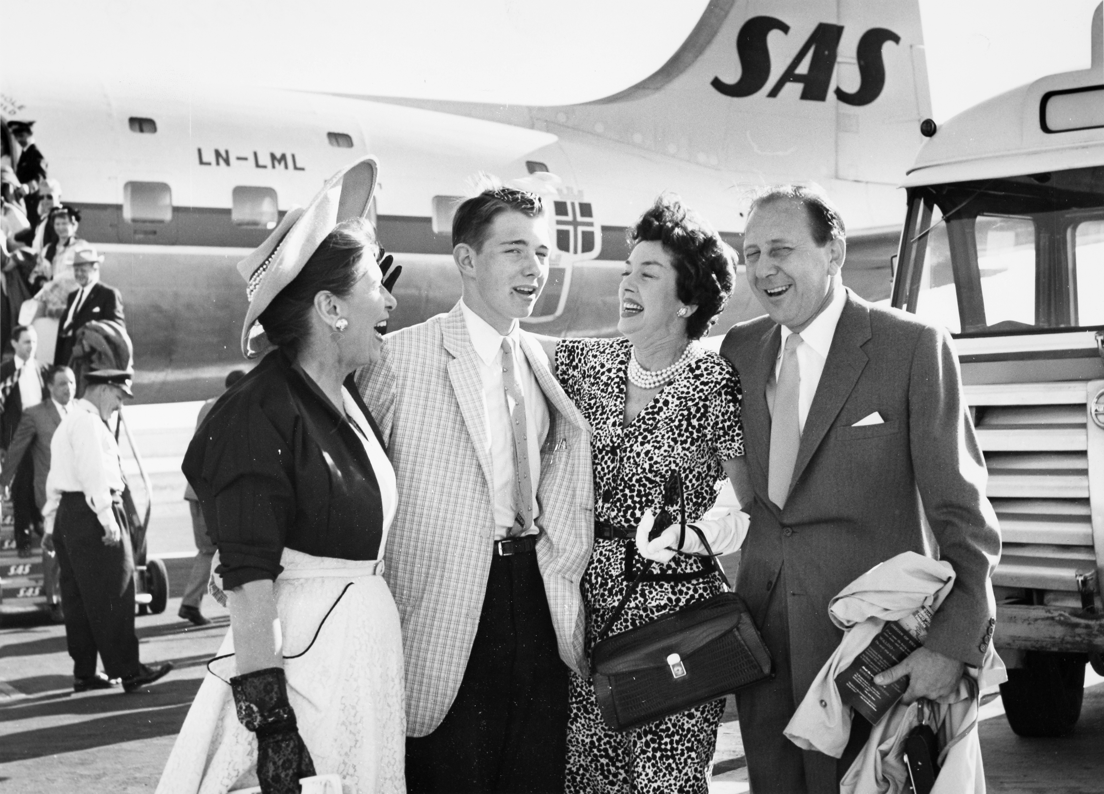 From left Mrs. Cleo Brisson, Lance, Wellknown American Actress Rosalind Russell and her husband Fred Brisson at Copenhagen Airport on 1959-06-13.